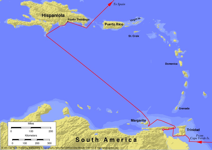 Map of the third voyage of Christopher Columbus, 1498-1500.